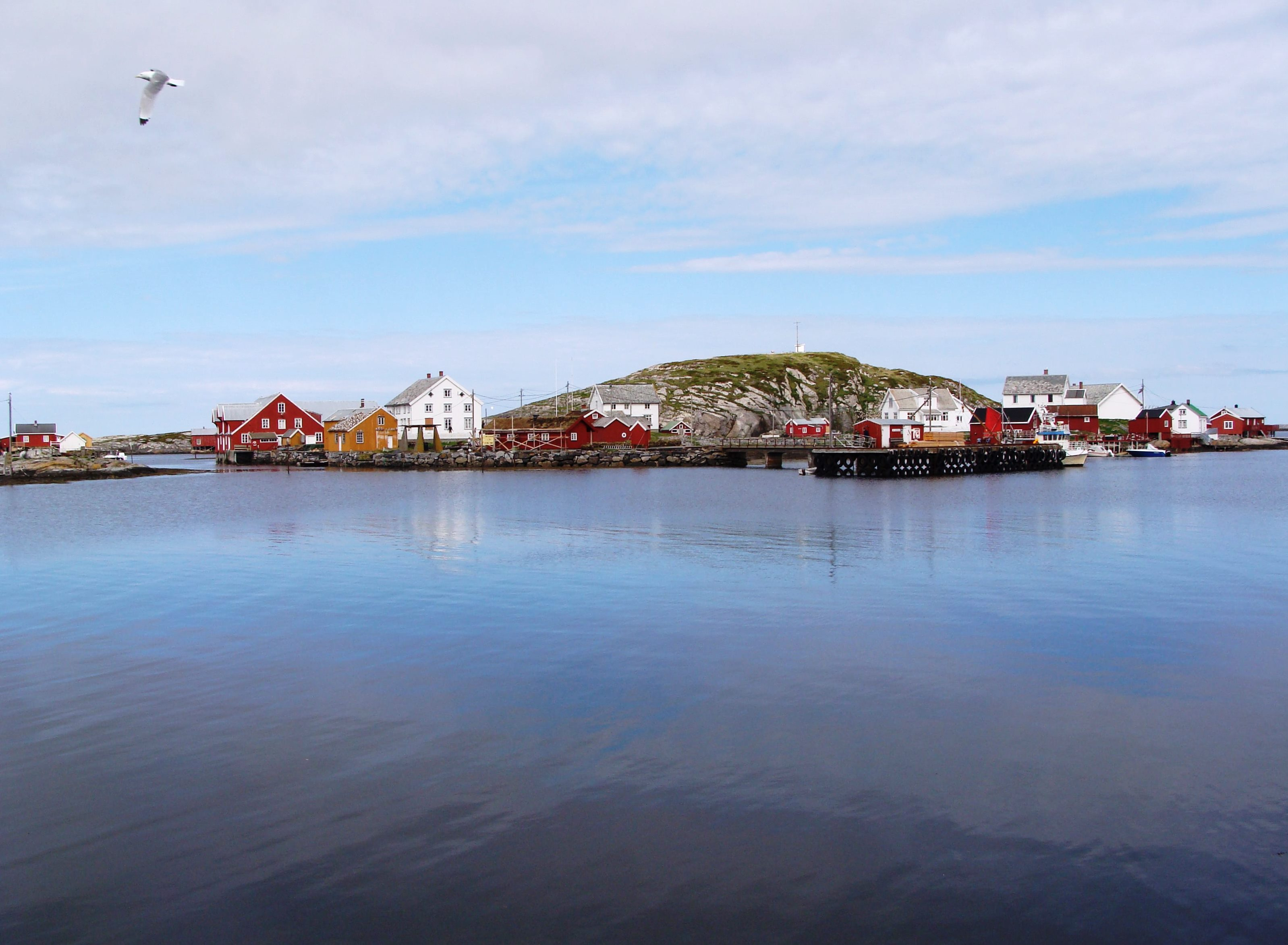 fishing village and archipelago Sør-Gjæslingan, Vikna, Nord-Trøndelag, Norway